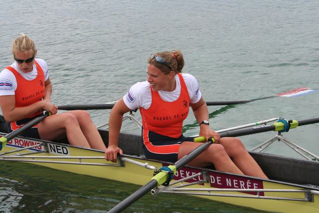 Claudia Belderbos after winning bronze, World Cup Banyoles 2009